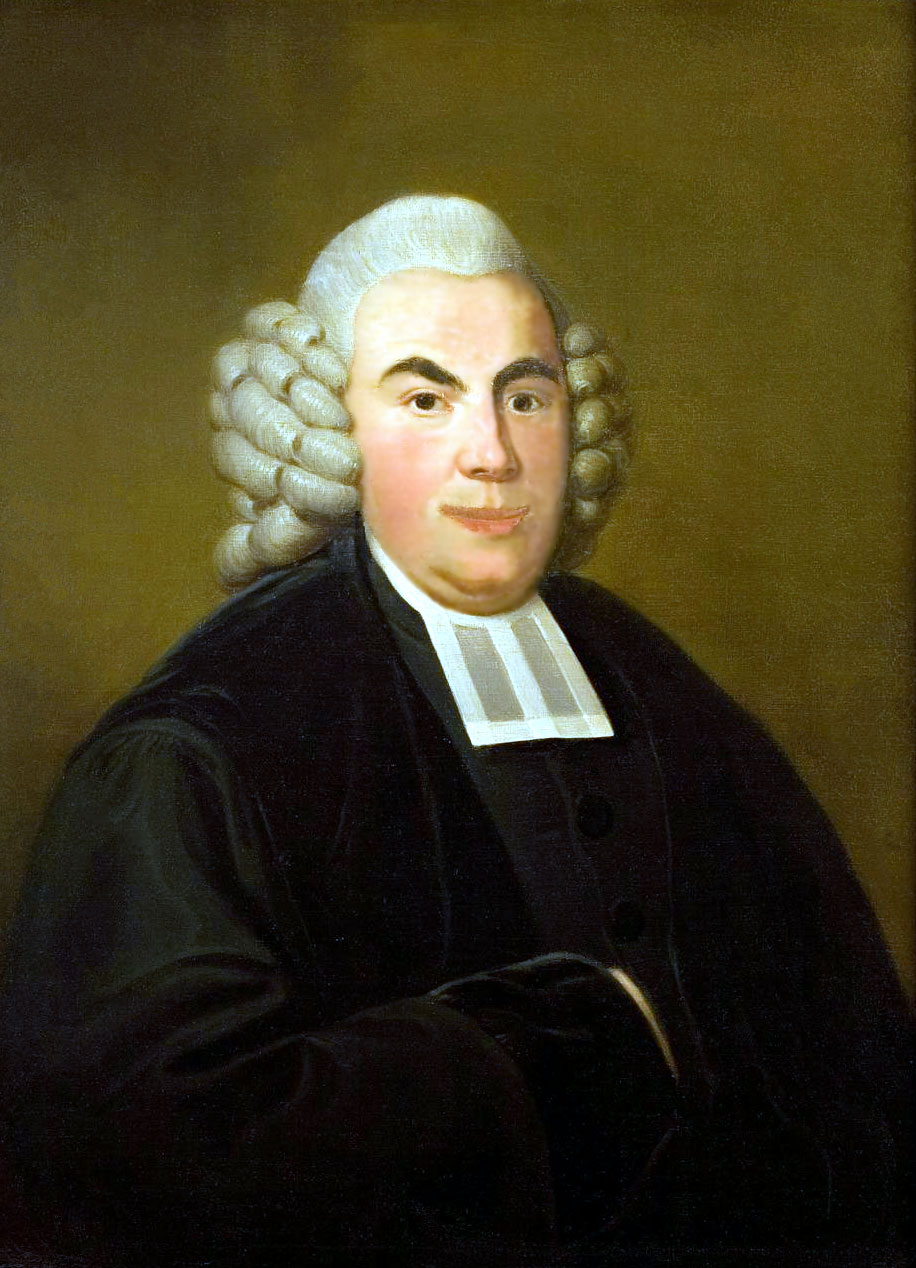 Carolus Boers (1746-1814) Dutch Reformed theologian